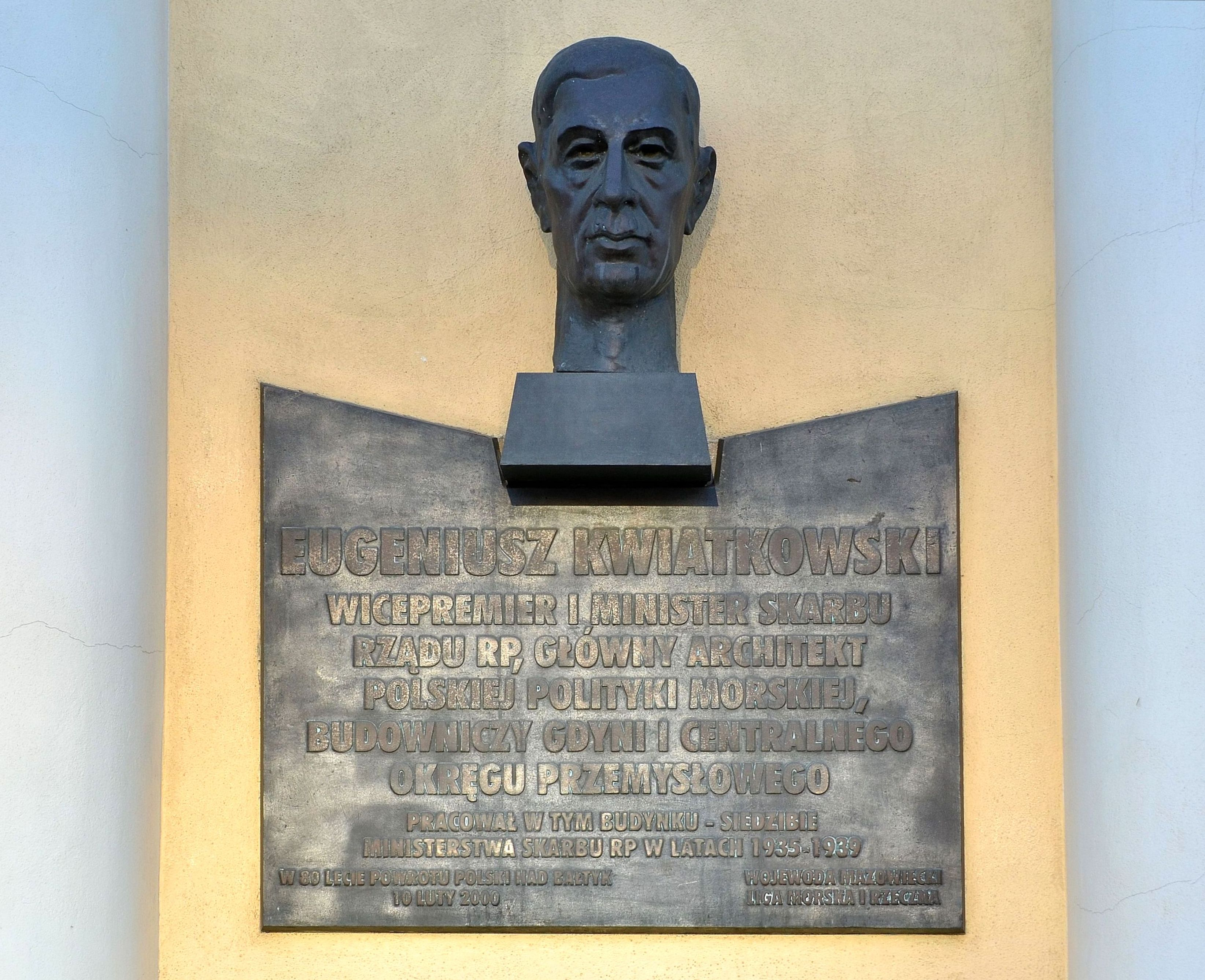 Plaque commemorating Eugeniusz Kwiatkowski on the façade of Treasury Ministers Palace in Warsaw